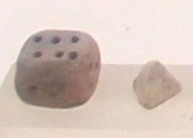 Dices, found at Mohenjo-daro